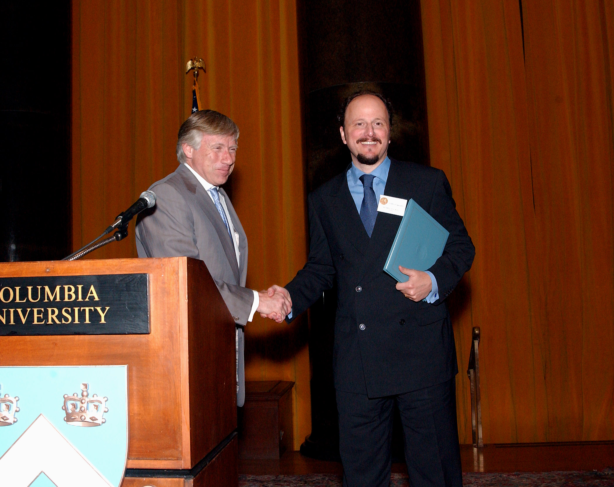 Columbia University President Lee C. Bollinger (left) presents Jeffrey Eugenides with the 2003 Pulitzer Prize in Fiction.